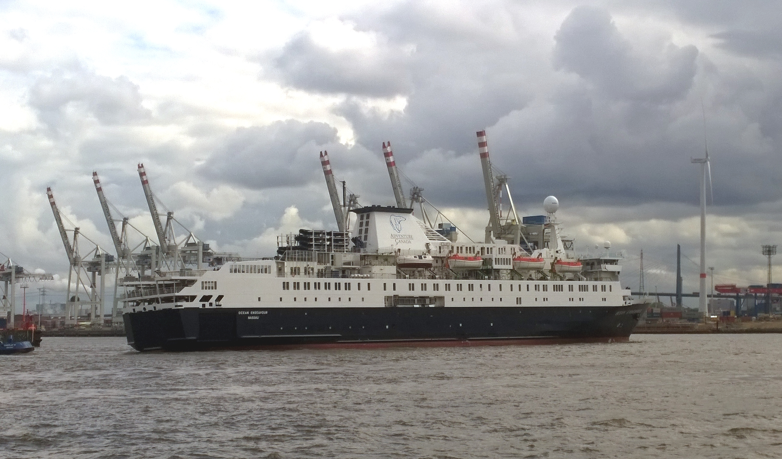 Cruise ship Ocean Endeavour for a yard stay starting from the port of Hamburg in June 2015